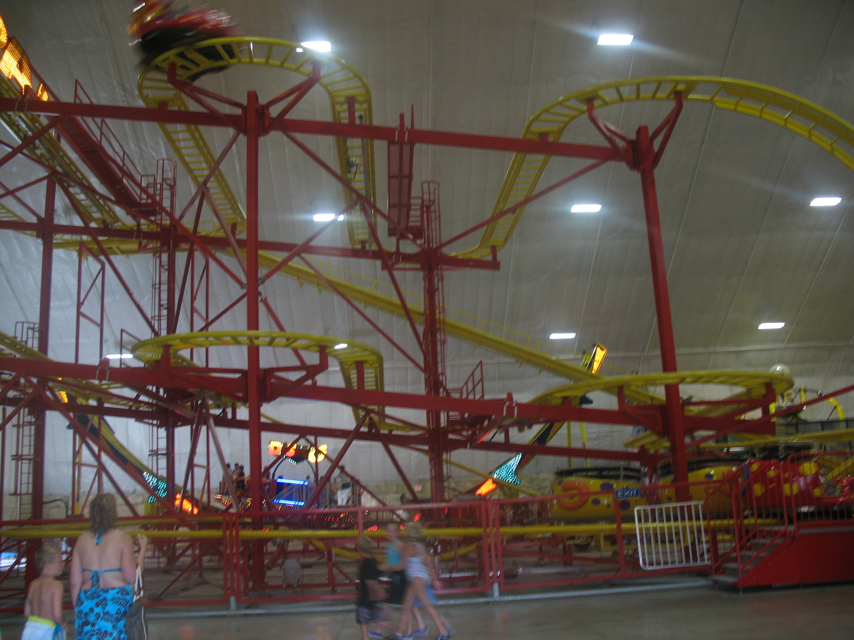 OPA spinning Wild Mouse Roller Coaster at Mt. Olympus Water & Theme Park